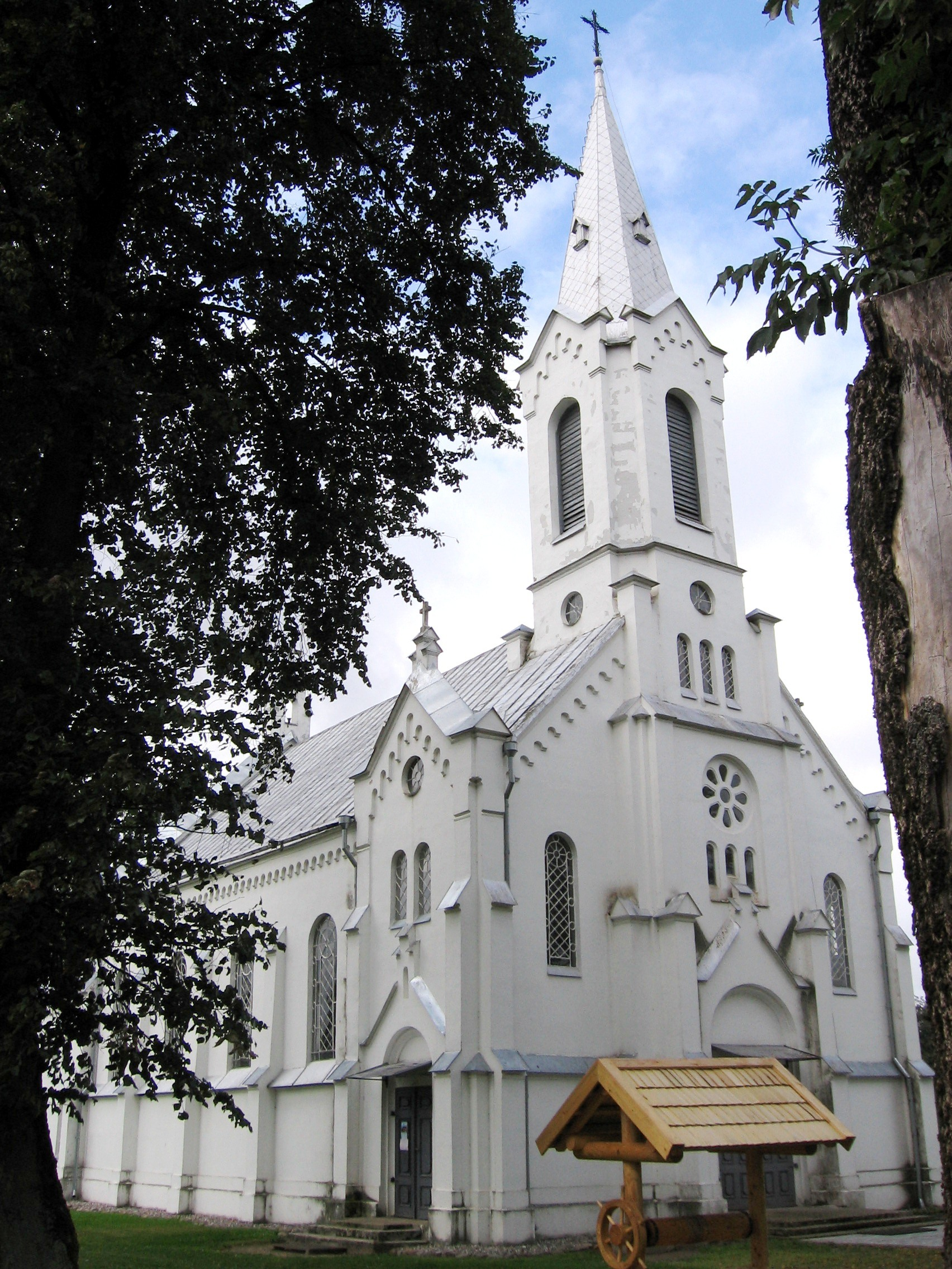 Barzdai Catholic Church, Šakiai district, Lithuania